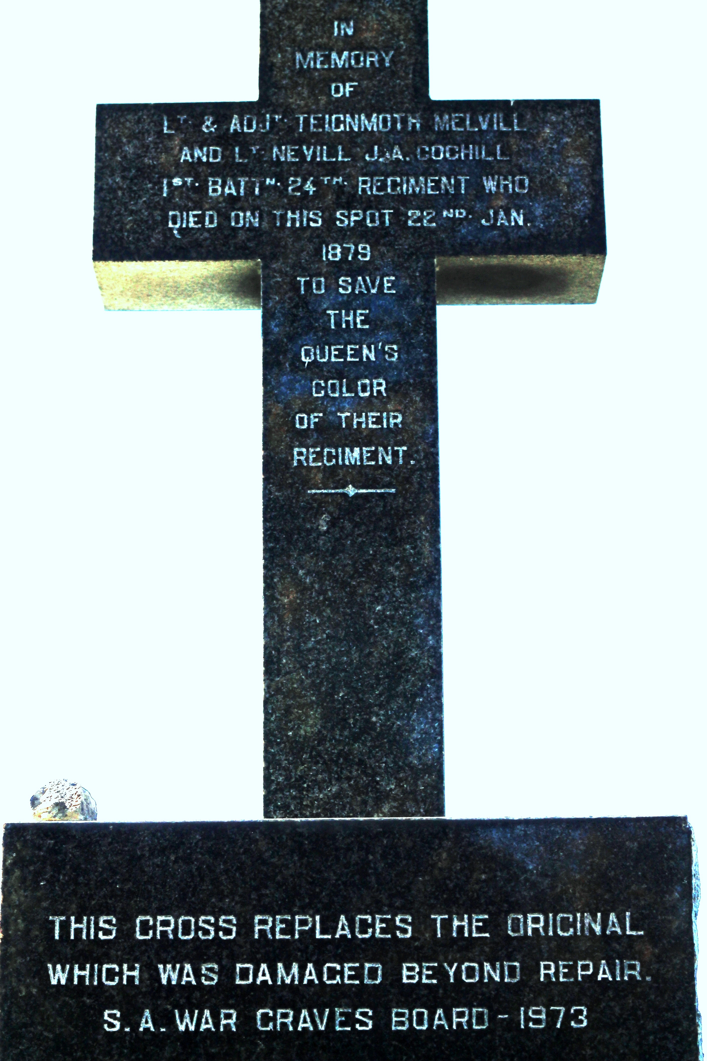 In memory of Lt Adt Teignmoth Melvill, Lt Nevill, JA Coghill, 1st Battallion and 24th Regiment who died on this spot 22nd Jan 1879 to save The Queen's colour of their Regiment. This media shows a South African Protected Site with SAHRA file reference 9/2/434/0001.